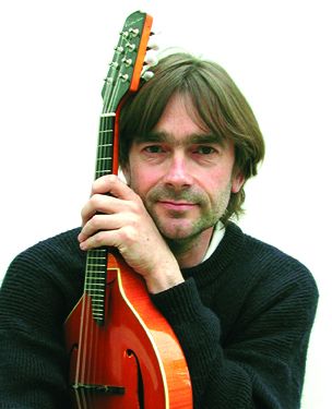 Simon Mayor with SM Model Mandolin